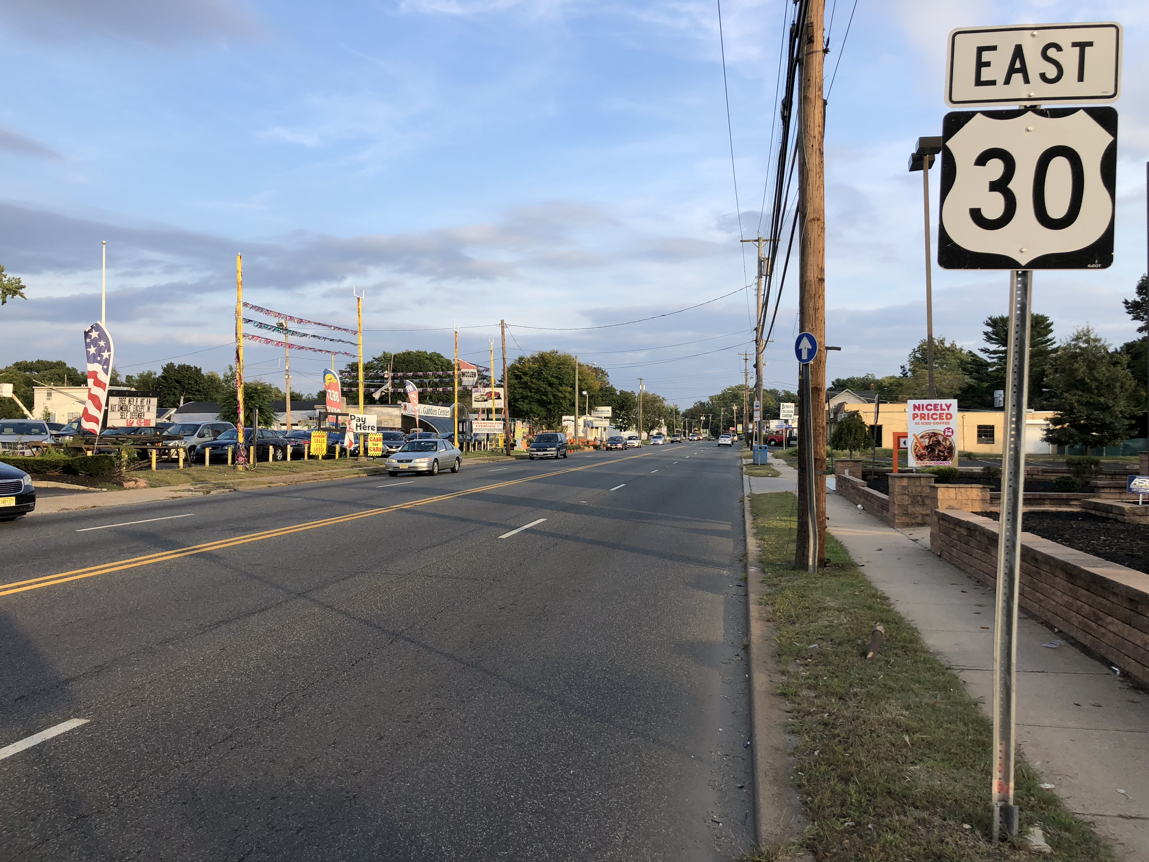 View east along U.S. Route 30 (White Horse Pike) just east of Camden County Route 686 (Gibbsboro Road) in Clementon, Camden County, New Jersey